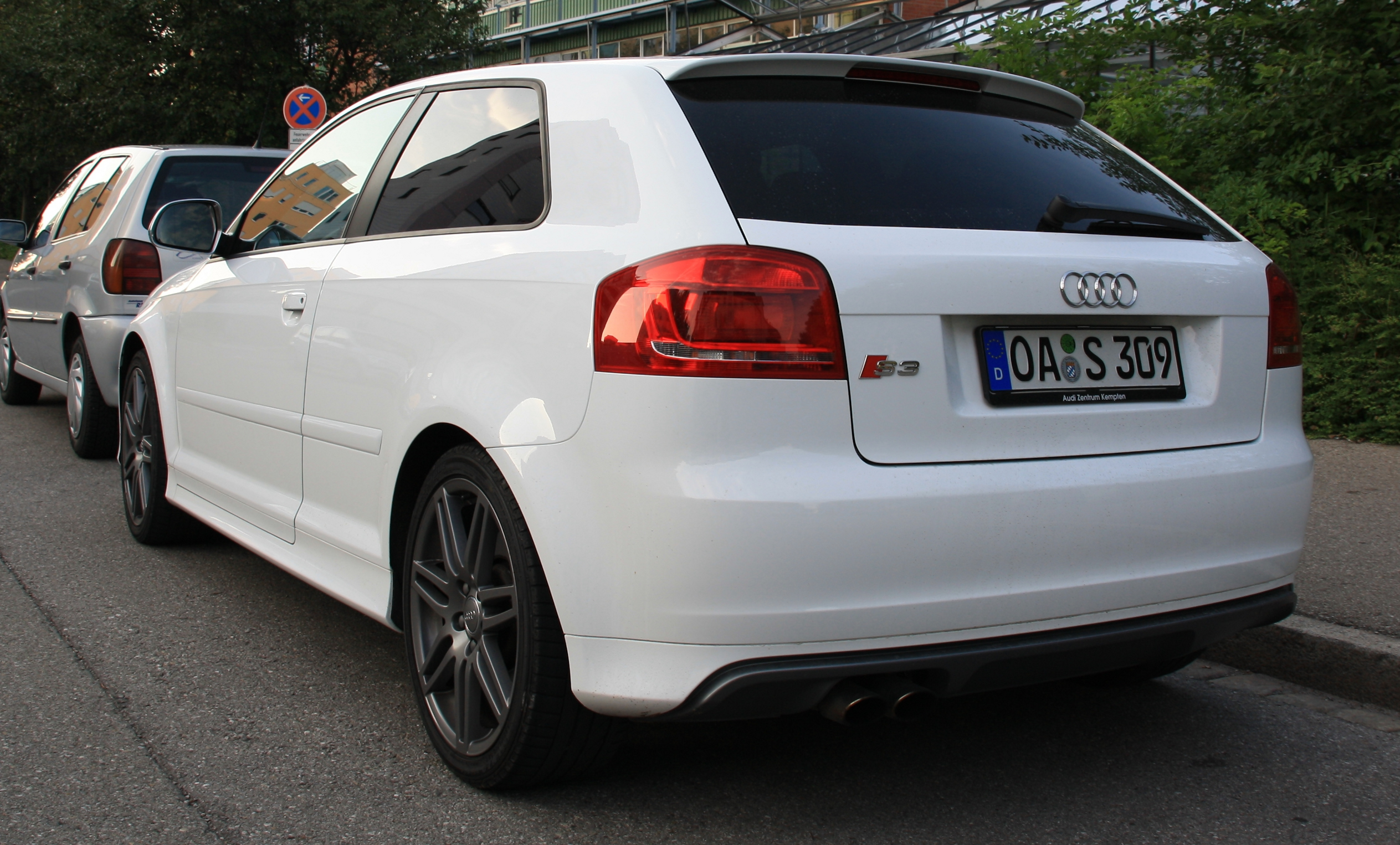 Audi S3 (P8)